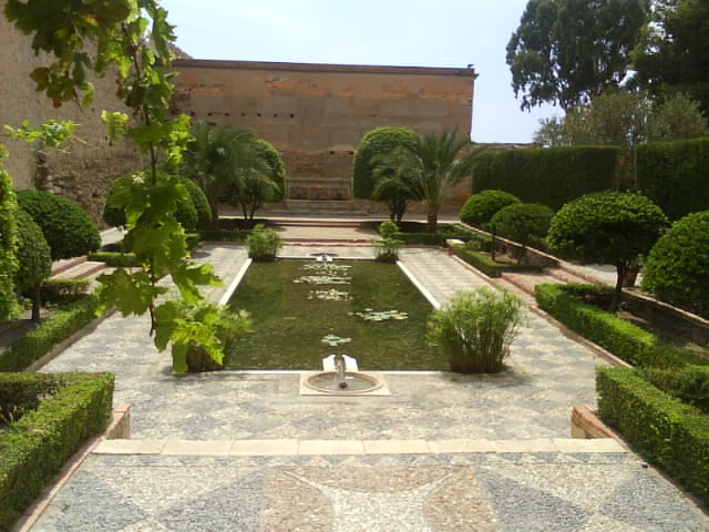 Fountain in the Islamic garden of the Alcazaba of Almería, Spain